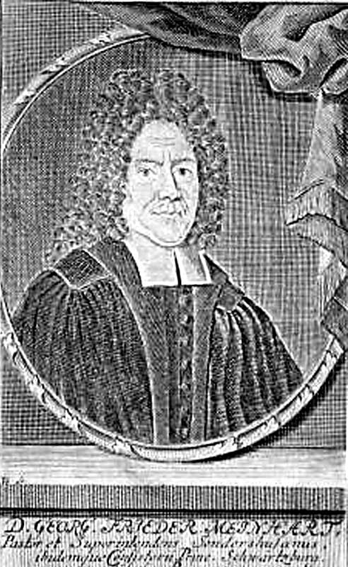 Georg Friedrich Meinhart, (1651-1718) Protestant theologians from Germany